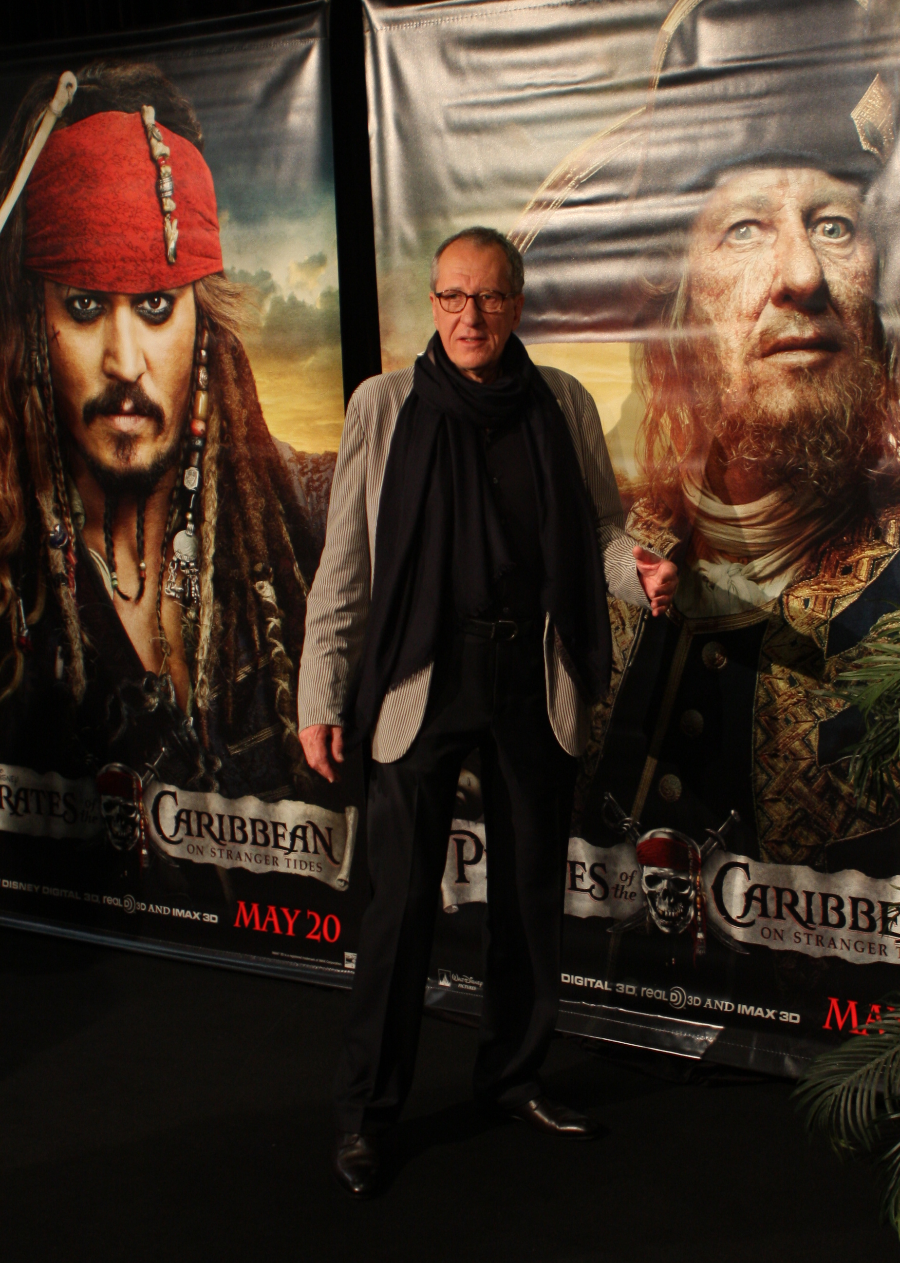 Pirates of the Caribbean Geoffrey Rush